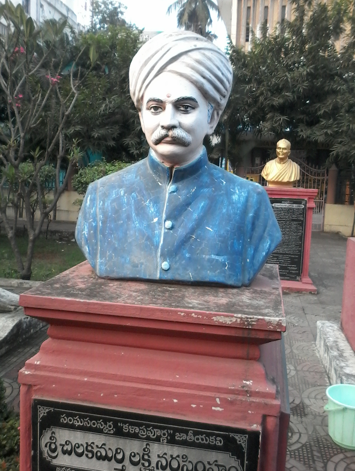 chilakamarti laxmi narasimham statue at swatantra samara yodhula park, rajahmundry